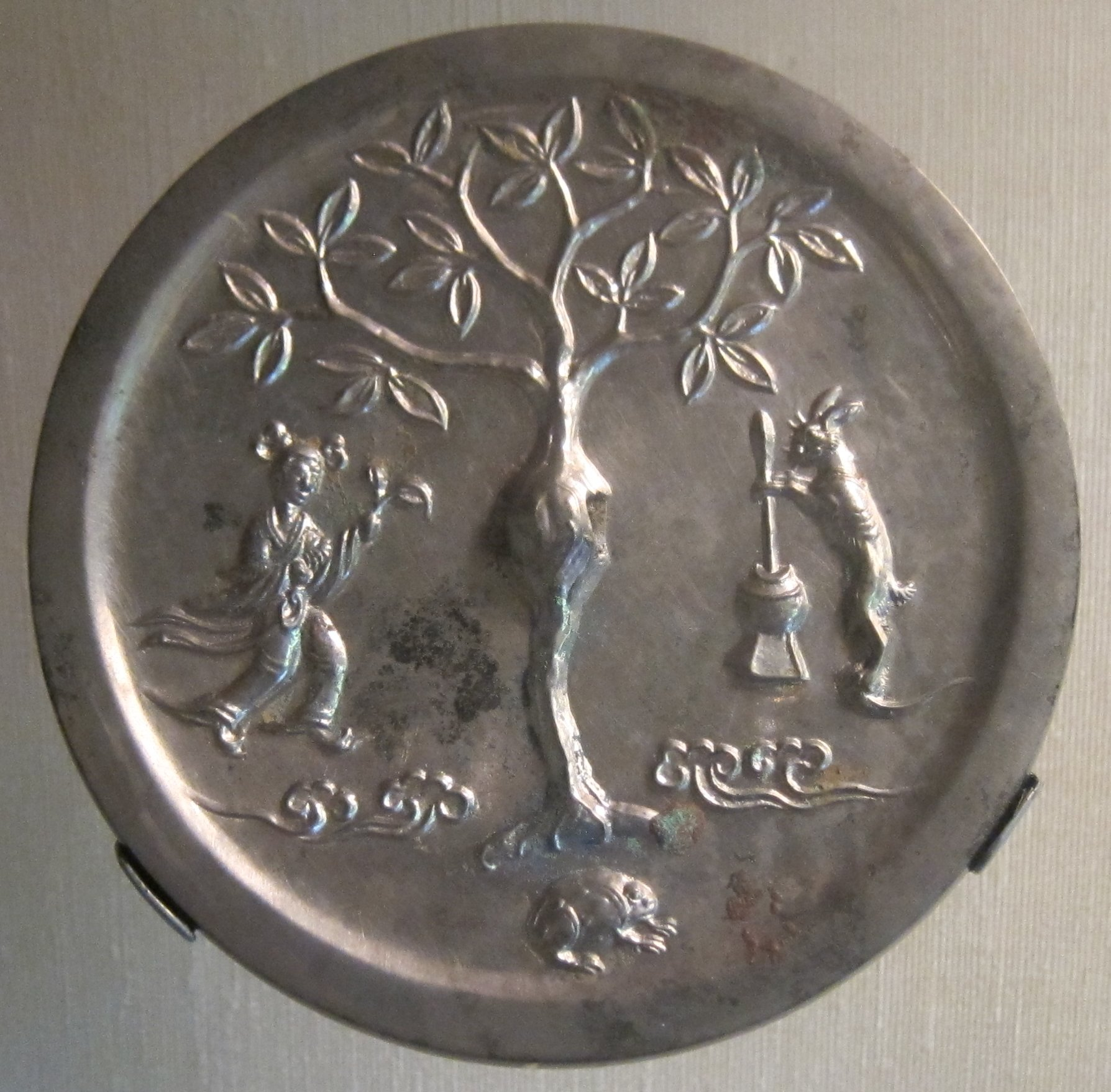 Tang dynasty (618-906) bronze mirror with moon goddess and rabbit design, Honolulu Academy of Arts (long-term loan)